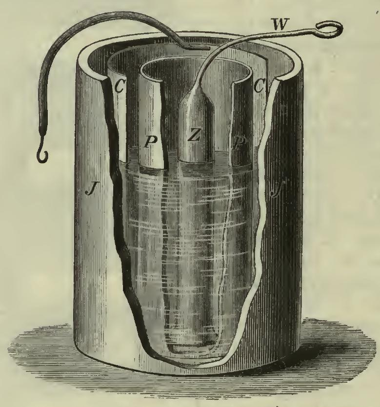 The Daniell's cell consists of a copper plate c, dipping into a solution of copper sulphate contained in a glass, or glazed, highly vitrified stoneware jar, J, and a zinc plate, or rod, z, to which a copper wire, or strip, w, is soldered, dipping into either dilute sulphuric acid or a solution of zinc sidphafe, the two solutions being separated by a porous partit nline], Page 210, Chapter V, Figure 76